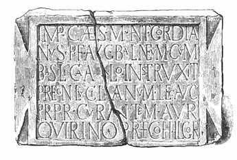 First Cohort of Lingonians building dedication to Emperor Gordian III, found before 1700, about 90 m east of Lanchester/Longovicum fort (GB). CIL VII 445 = RIB 1, 1091: Imp(erator) Caes(ar) M(arcus) Ant(onius) Gordia/nus P(ius) F(elix) Aug(ustus) bal(i)neum cum / basilica a solo instruxit / per Egn(atium) Lucilianum leg(atum) Aug(usti) / pr(o) pr(aetore) curante M(arco) Aur(elio) / Quirino pr(a)ef(ecto) coh(ortis) I L(ingonum) Gor(dianae)